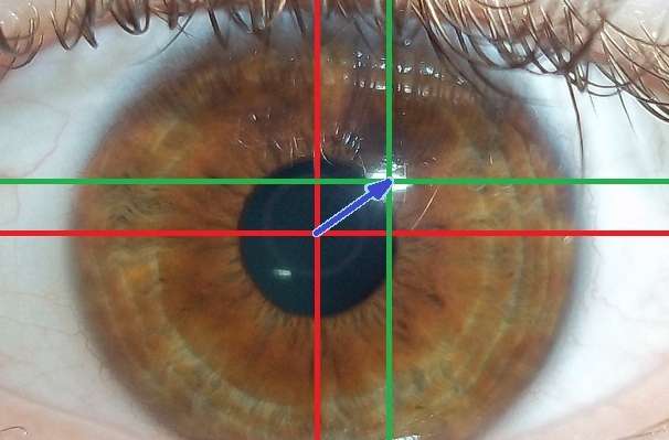 Eye-tracking algorithm using visible light (passive light) with center of iris (red), glint (green), the output vector (blue)